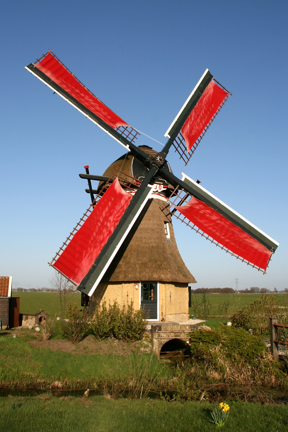 Lytse Geast: windmill "De Swarte Prinsch"